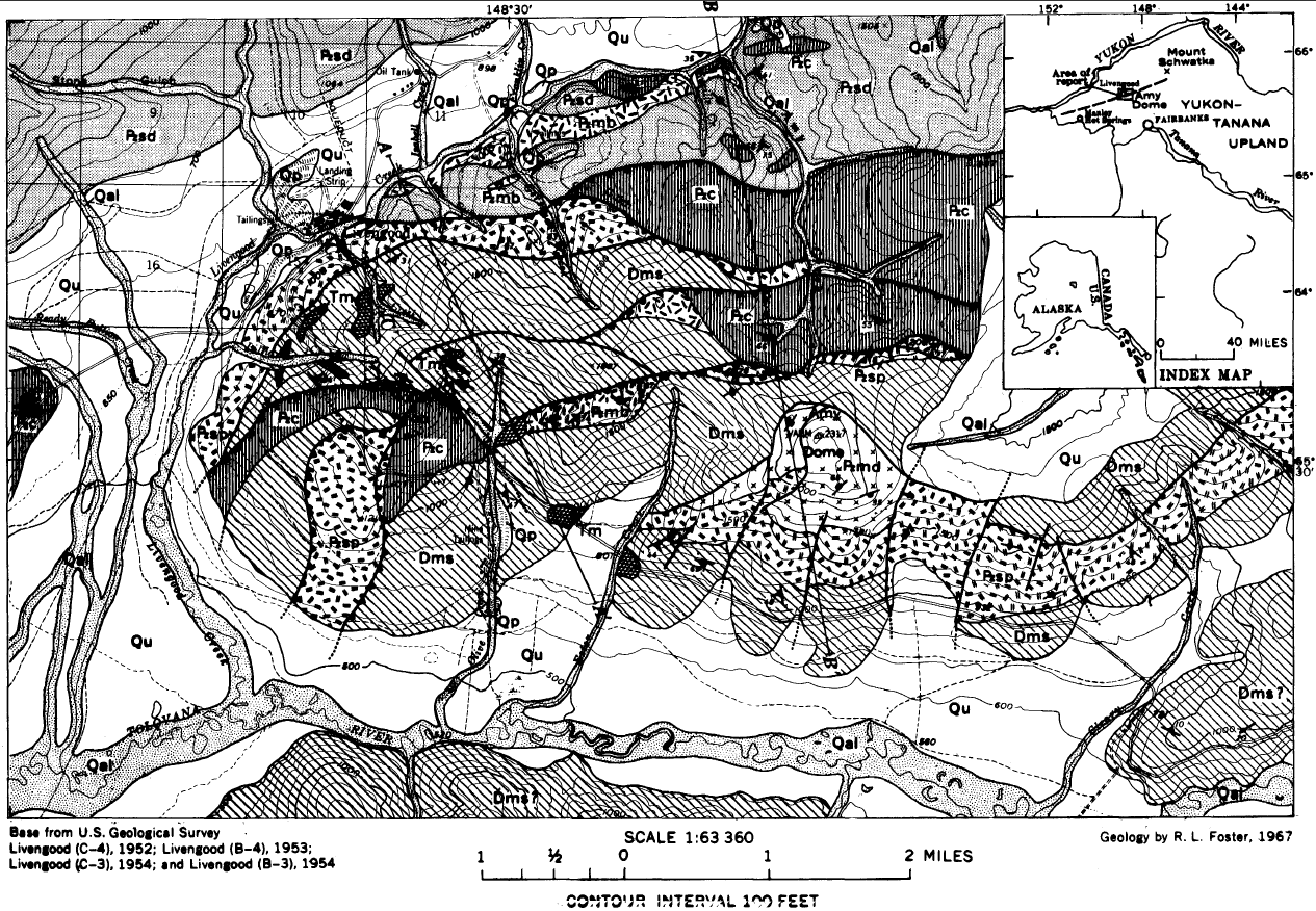 Geologic Map of the Livengood District, where Qp are placer workings, Tm is Tertiary monzonite, Dm is Devonian grawacke and argillite, and Pzsp are paleozoic serpentinite, peridotite, and metasomatites, Pzmb is metabasalt, and Pzc is a chert breccia and black marble with volcani-clastic and tuffaceous beds